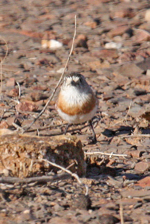 Chestnut-breasted Whiteface (Aphelocephala pectoralis), Strzelecki Track, South Australia.